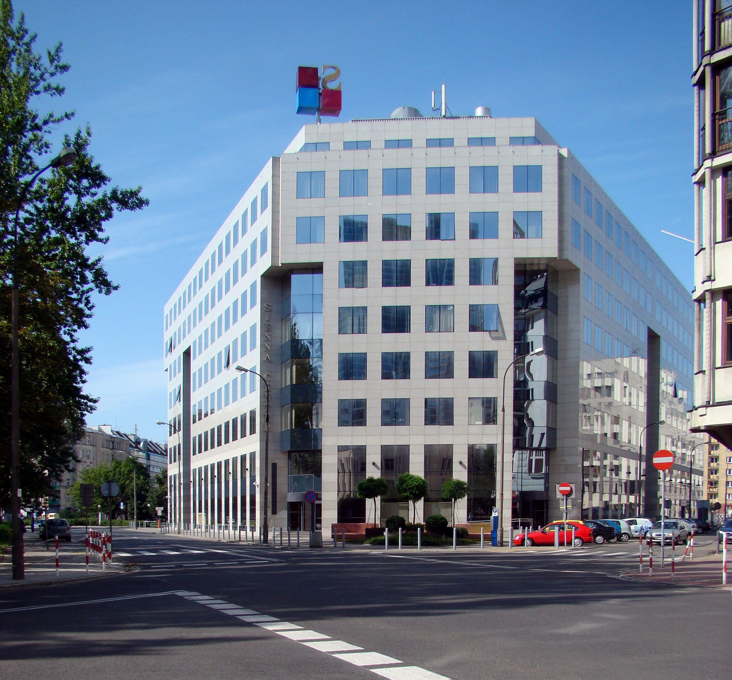 Sienna Center Building Warsaw